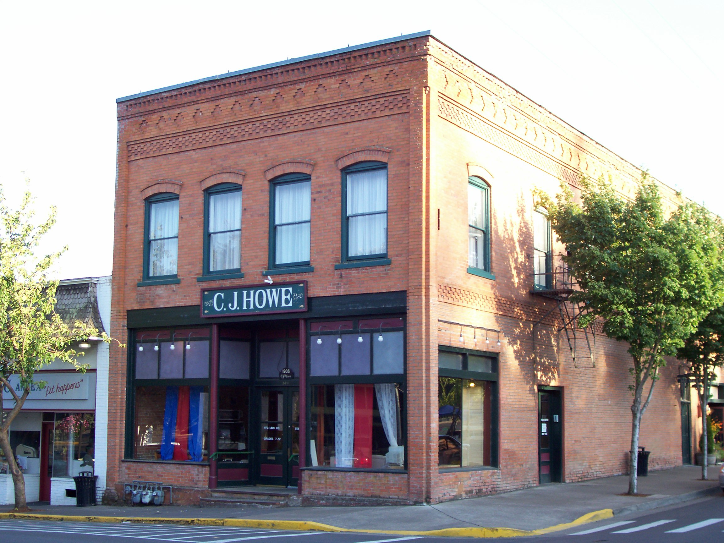 C. J. Howe Building in Brownsville, Oregon. Listed on the National Register of Historic Places.